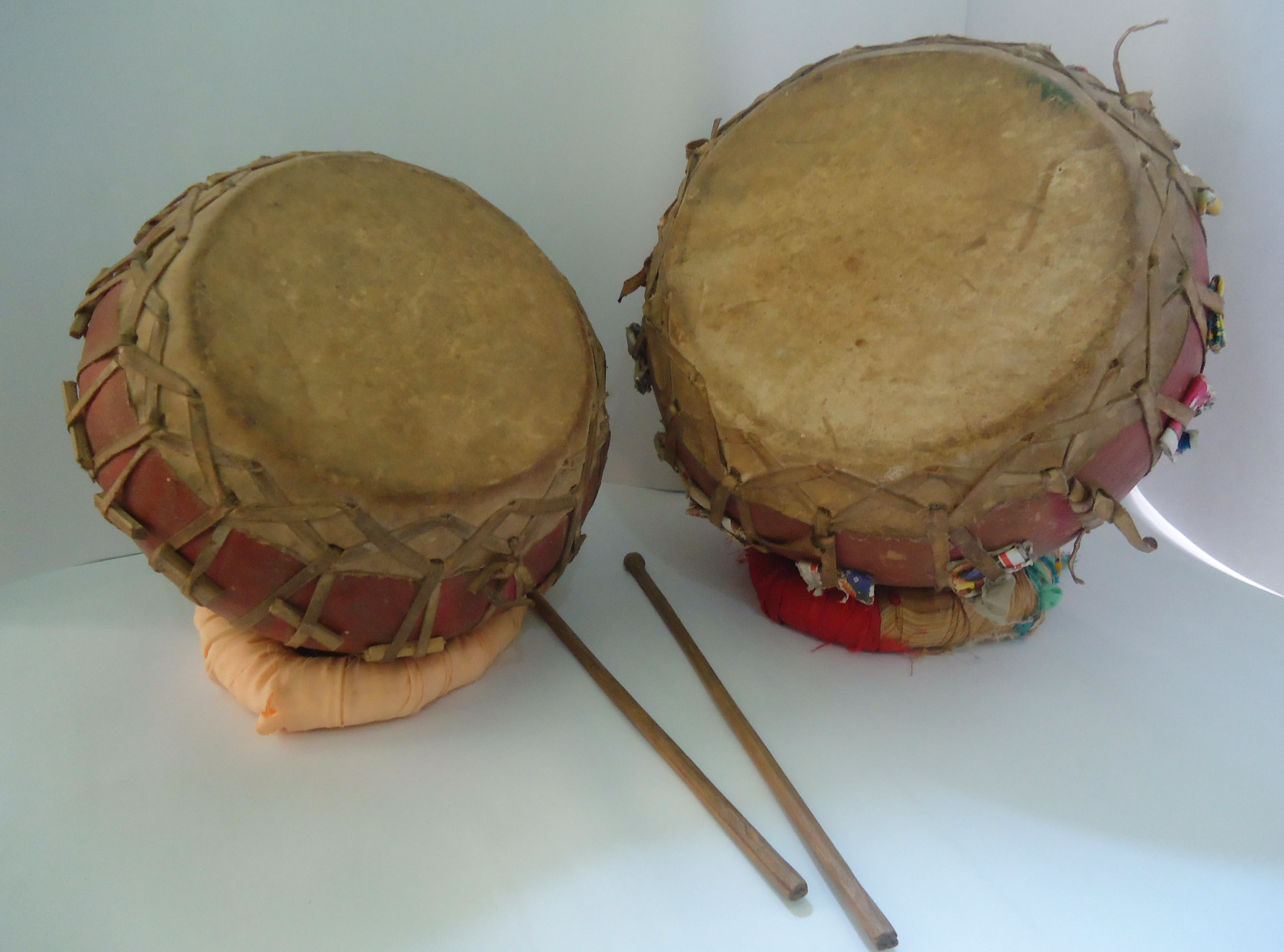 Nagara